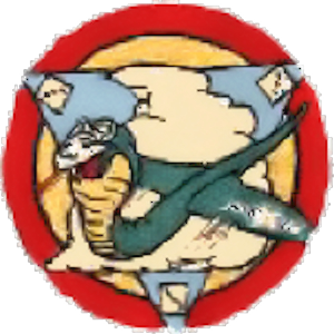 Emblem of the 333d Fighter Squadron (World War II)